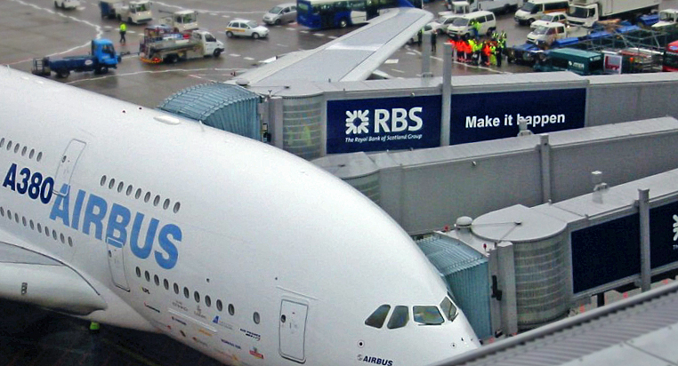 The Airbus A380 at Frankfurt Airport